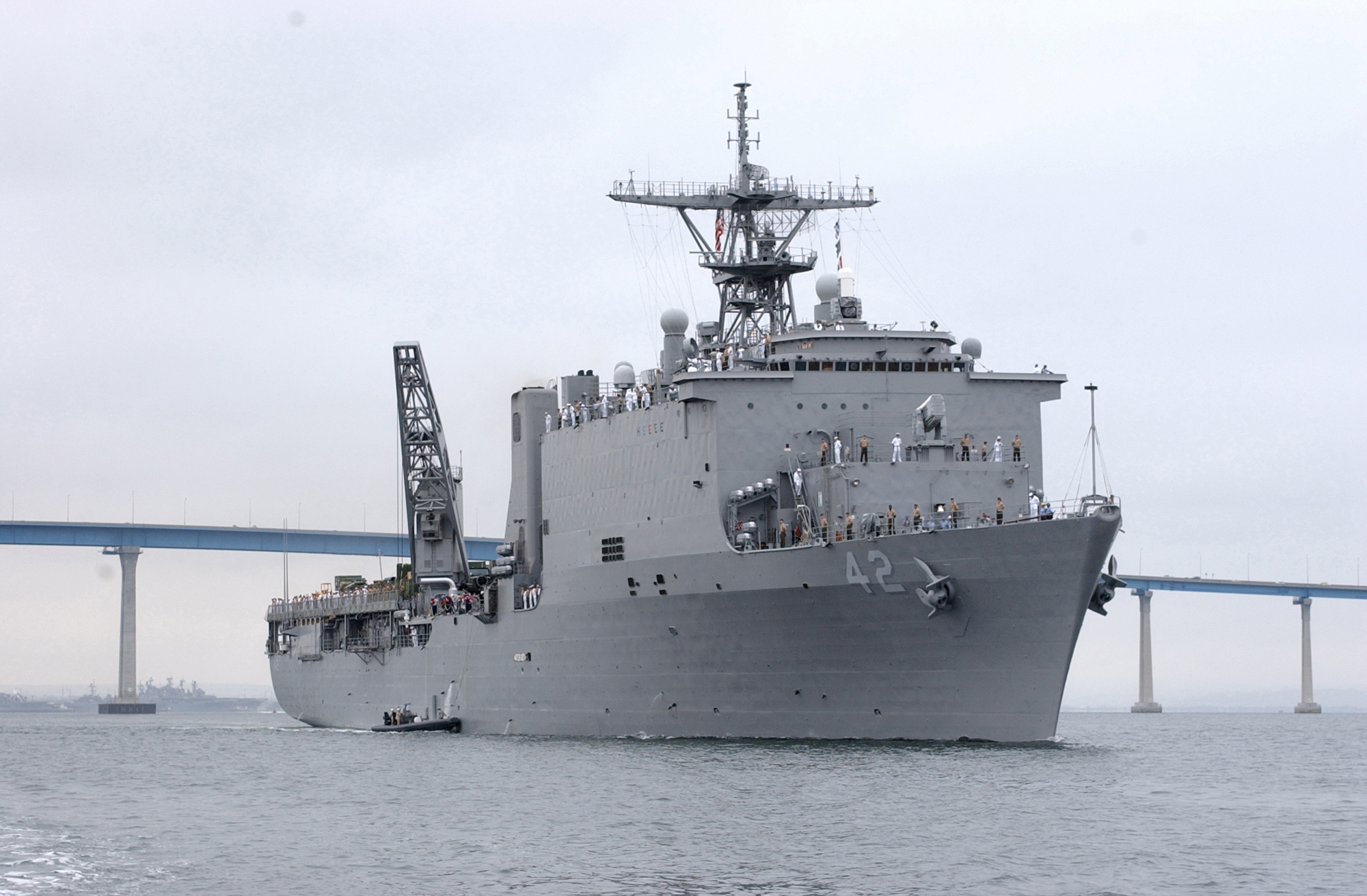 030822-N-9885M-005 San Diego, Ca. -- USS Germantown (LSD 42) makes wake in San Diego's harbor as she begins a regularly scheduled deployment. The dock landing ship is part of the first Expeditionary Strike Group (ESG-1). An ESG constitutes a new naval strike force designed to equip amphibious forces with added firepower and operational capabilities. The seven ships of ESG 1 include, the Germantown, USS Peleliu (LHA 5), USS Jarrett (FFG 33), USS Ogden (LPD 5), USS Port Royal (CG 73), USS Decatur (DDG 73), and USS Greeneville (SSN 772).